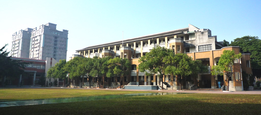 square of tnfsh